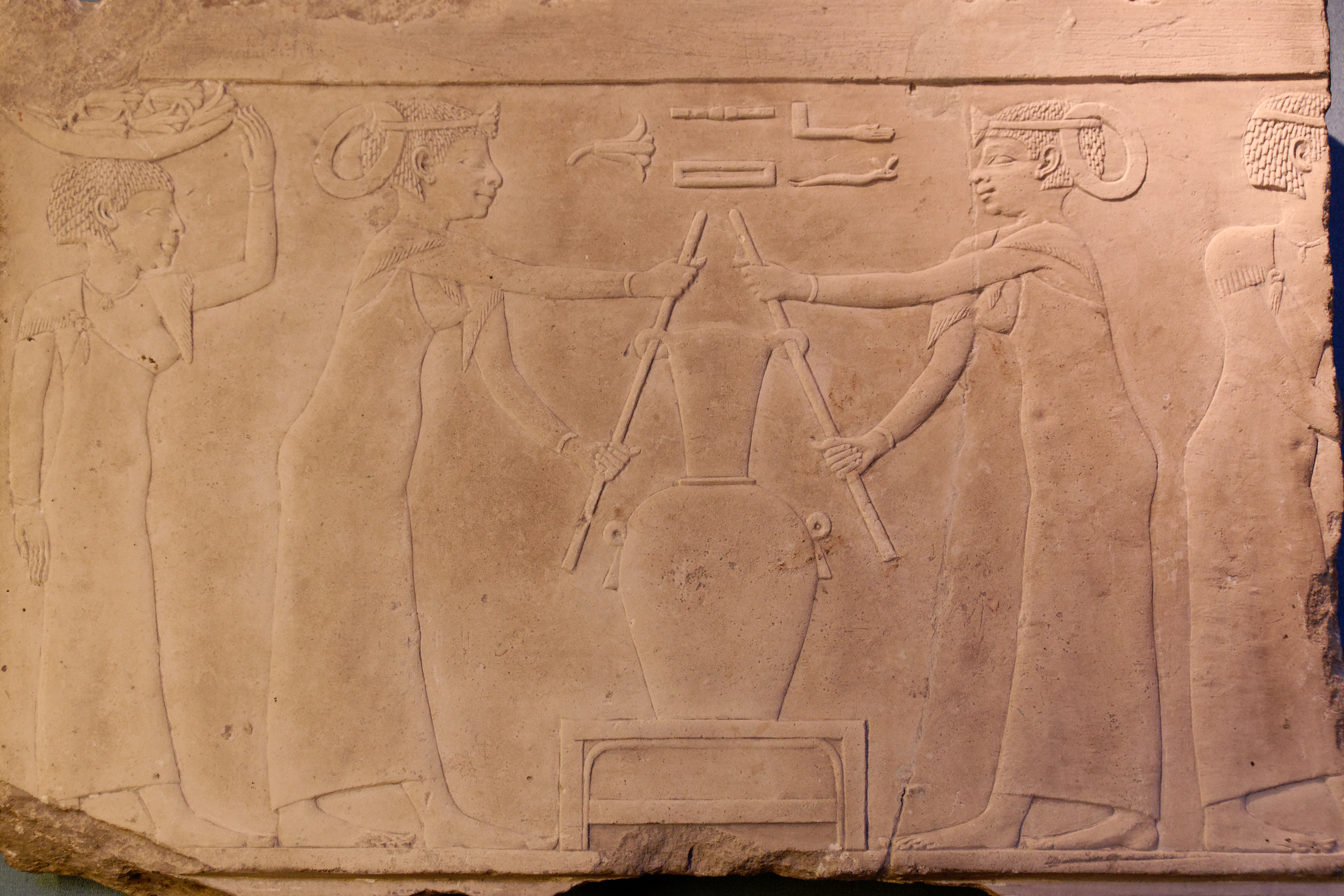 The making of lily perfume. Limestone, fragment from the decoration of a tomb, 4th dynasty of Egypt-(2500s BC).